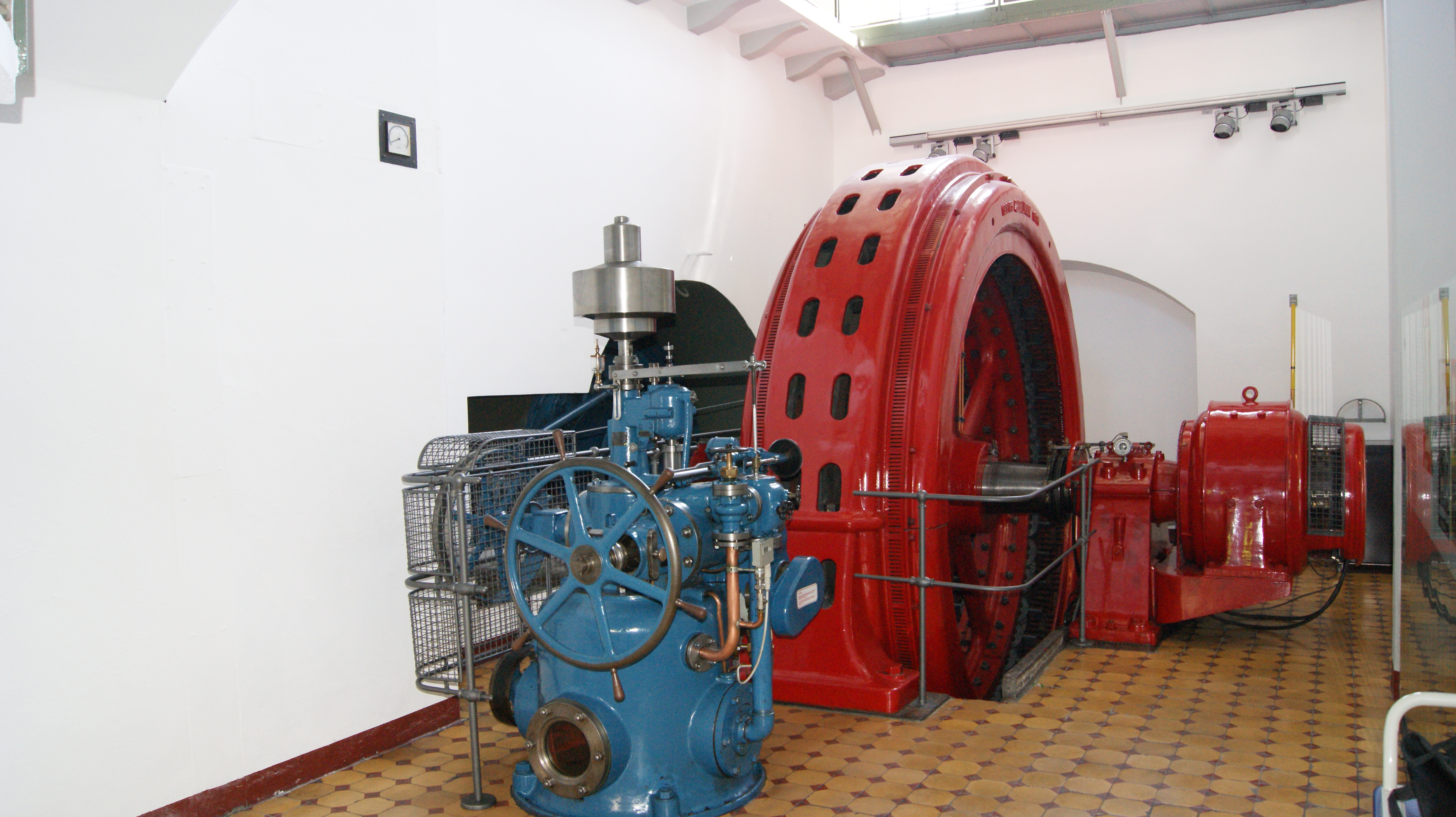 Old power plant „Rieden“ of the Vorarlberger Kraftwerke AG in Bregenz, Vorarlberg, Austria. Machine from 1914.